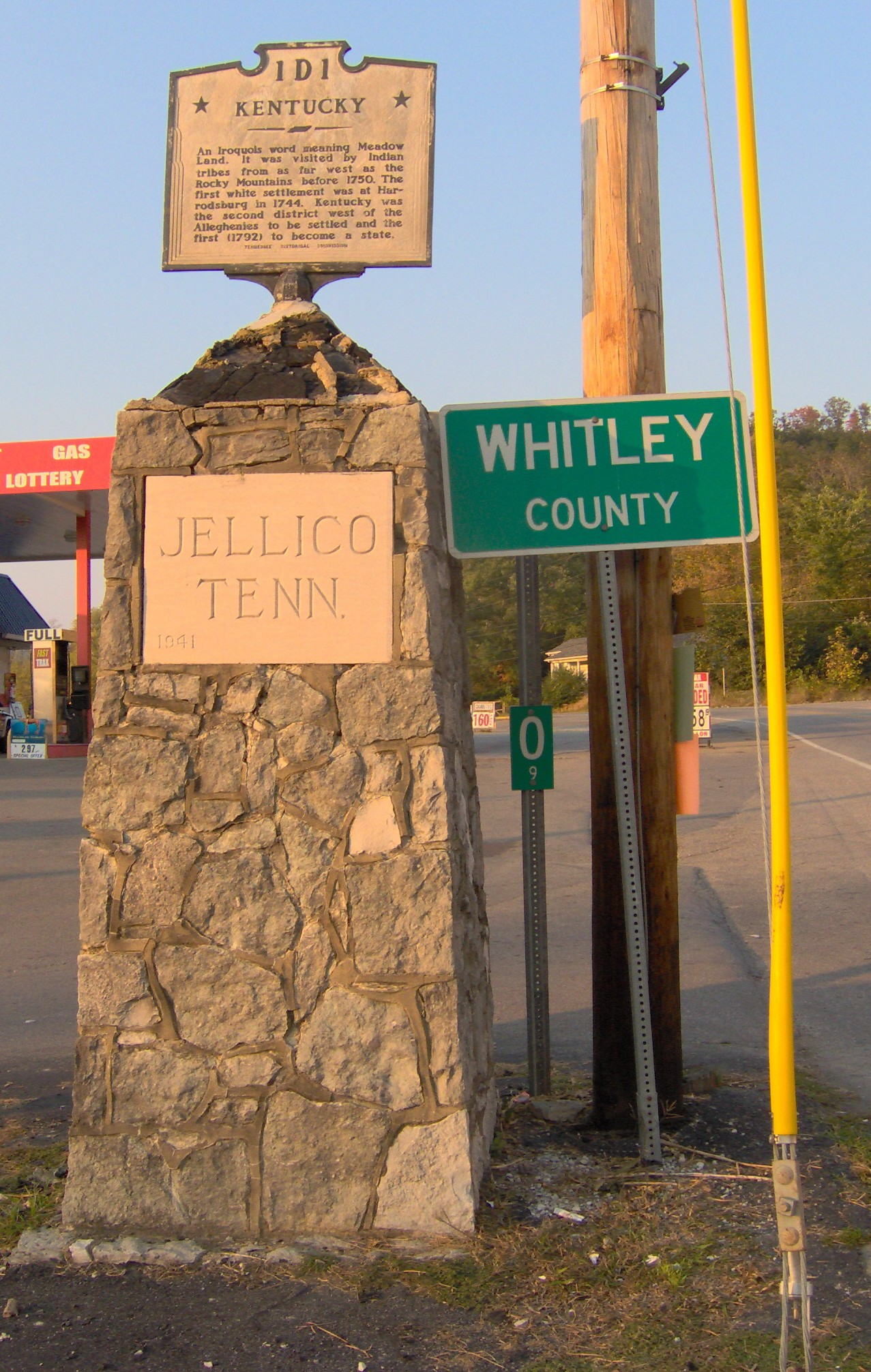 Marker at the Tennessee-Kentucky state line on N. Main Street (US-25W) in Jellico, Tennessee, in the southeastern United States.